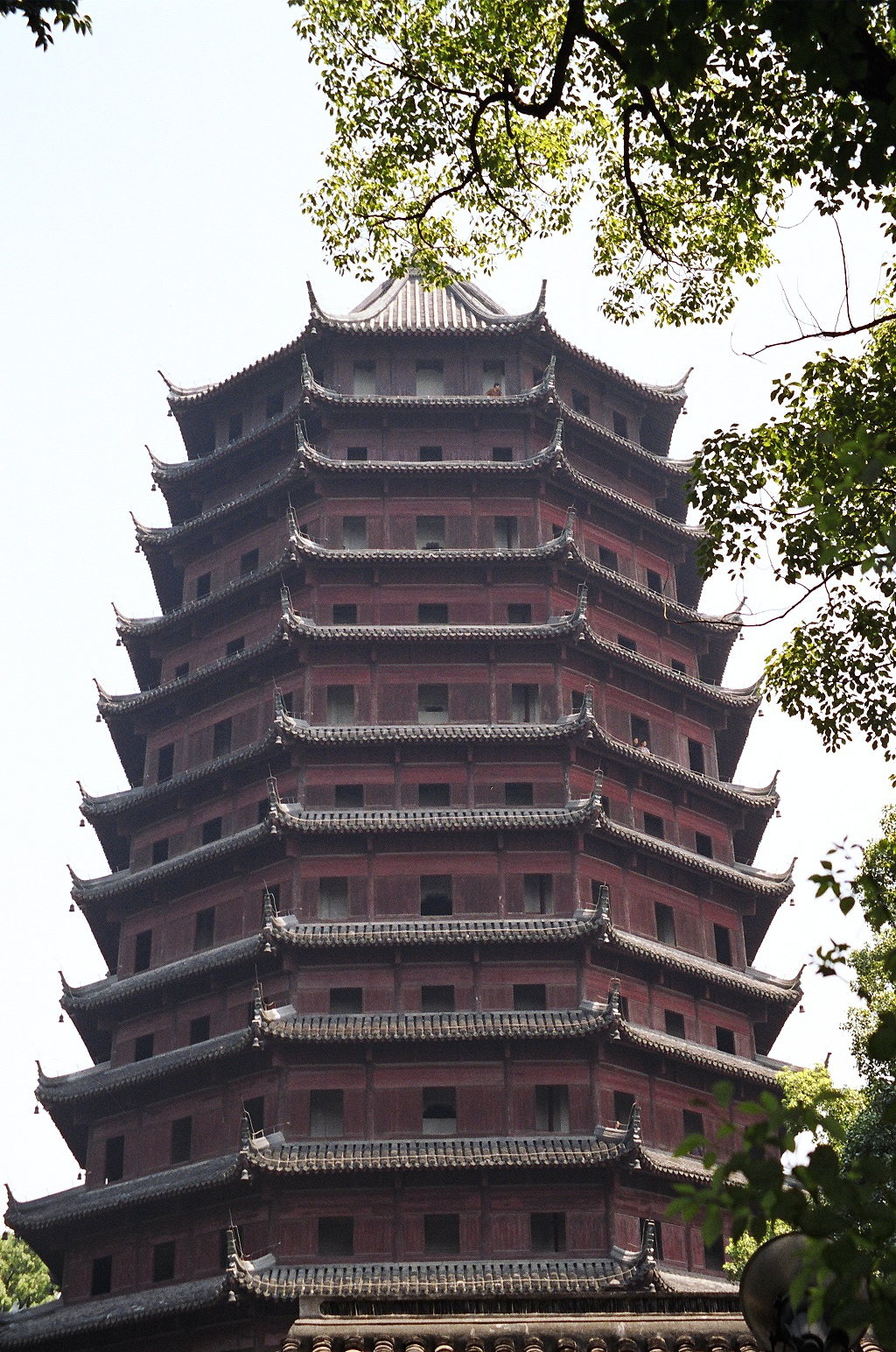 The Liuhe Pagoda in Hangzhou, China.